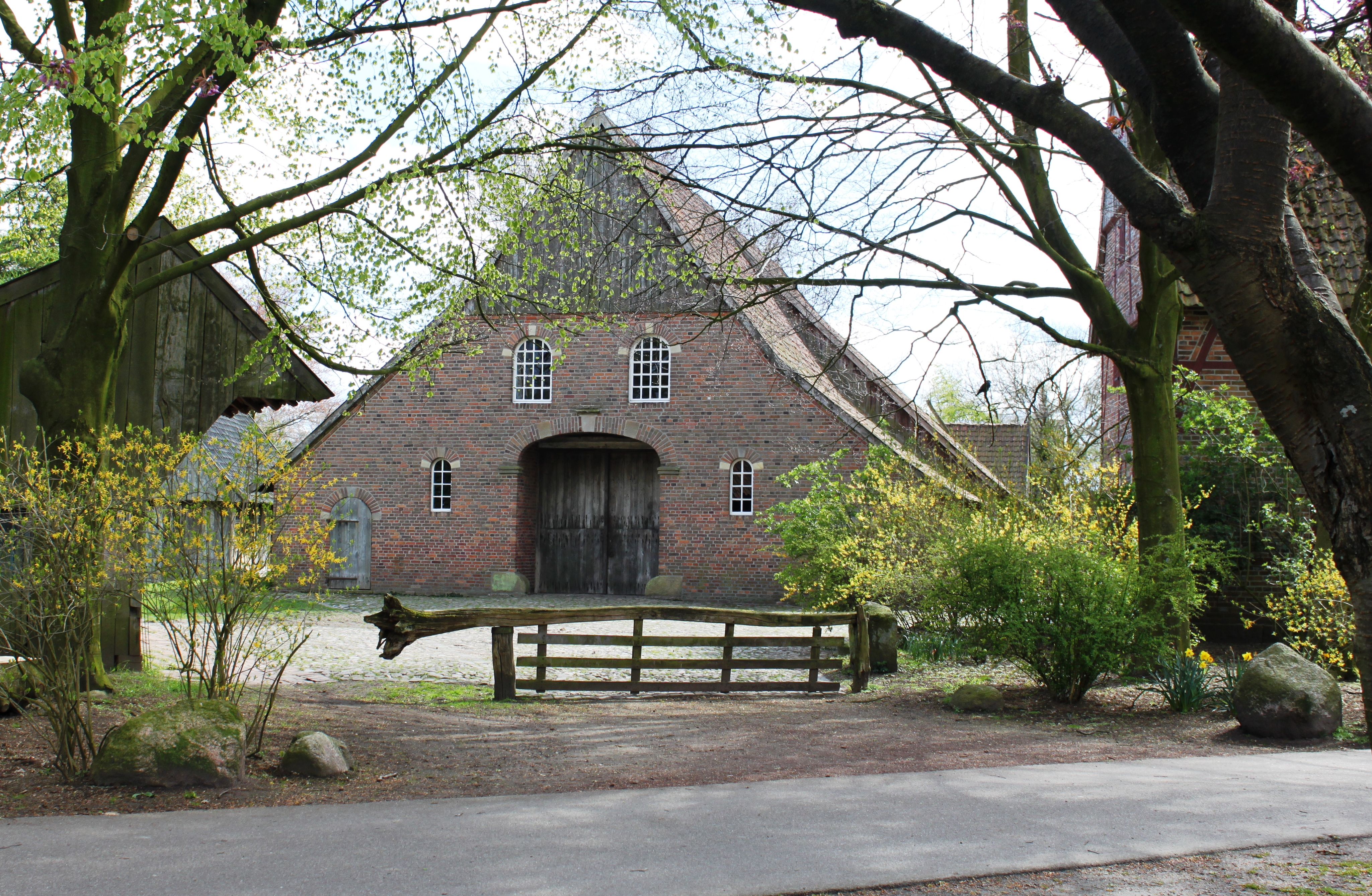 Part of the historical agricultural buildings of the Hamaland-Museum in Vreden